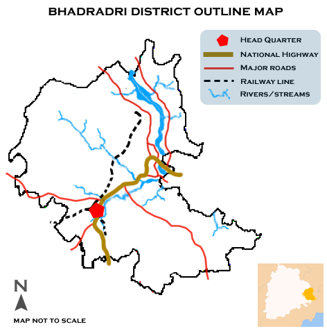 Bhadradri District basic outline map